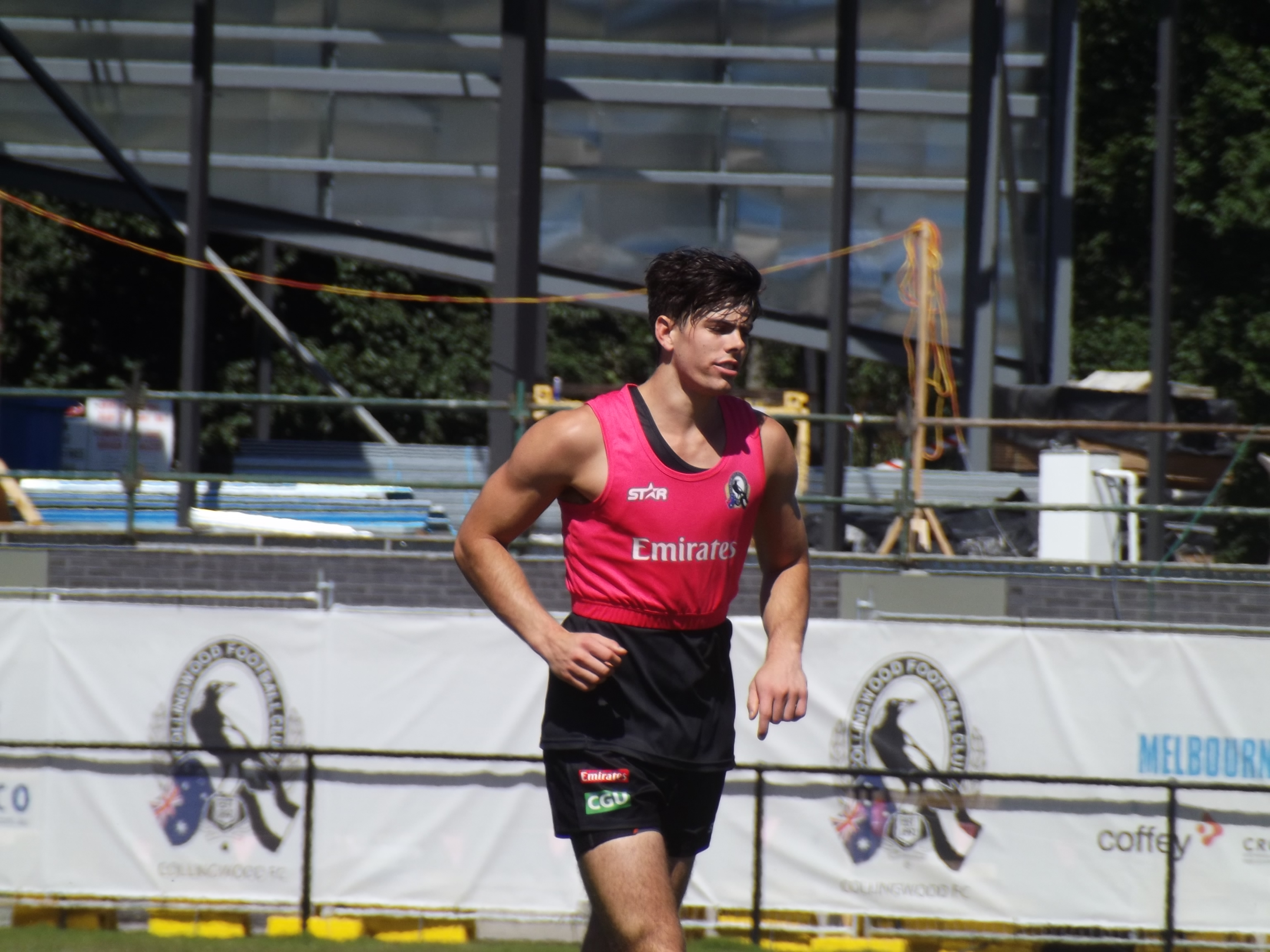 Corey Gault with Collingwood during an open training session at Olympic Park, Melbourne.